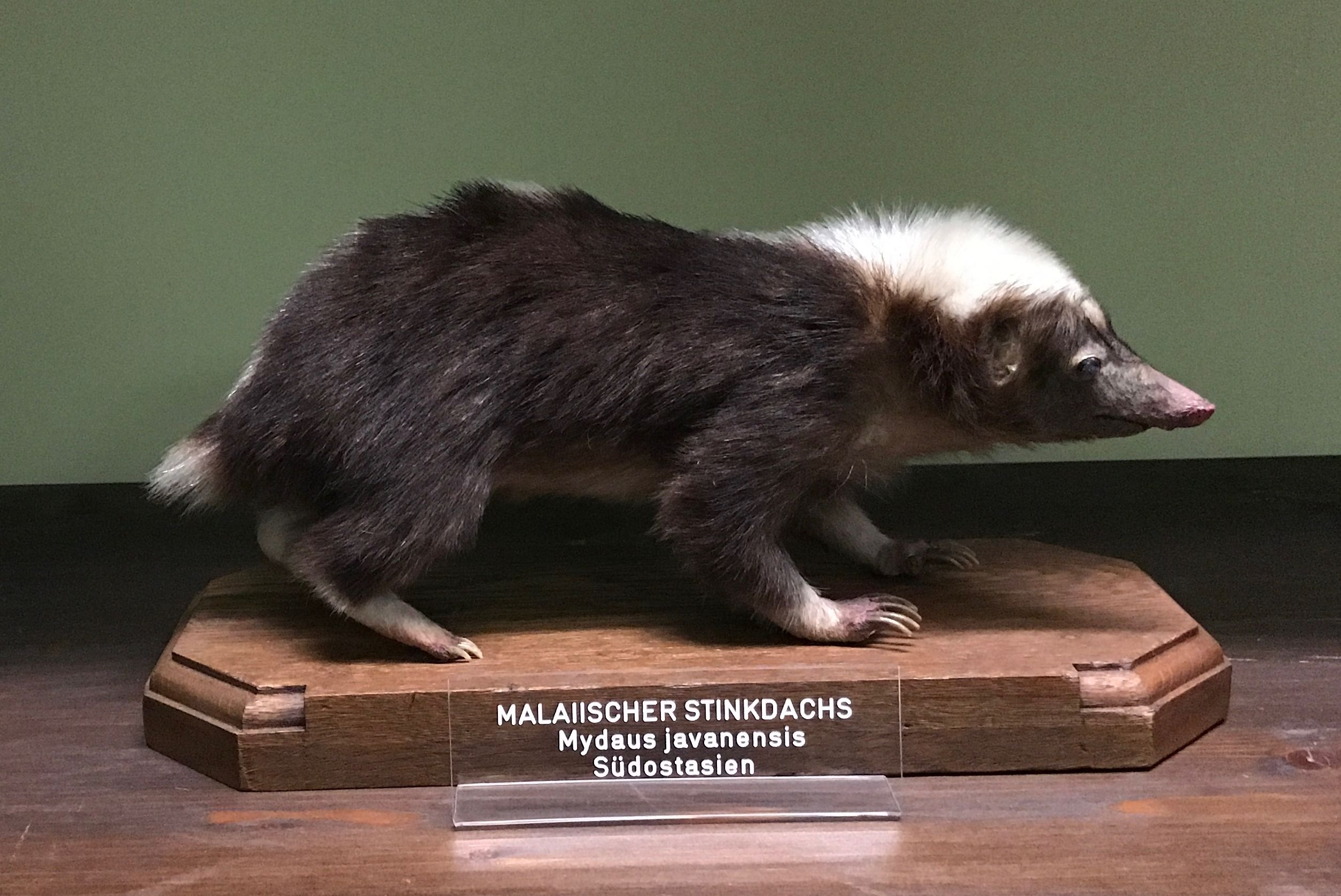 Sunda stink badger Mydaus javanensis preparation of the Museum of Natural History in Vienna